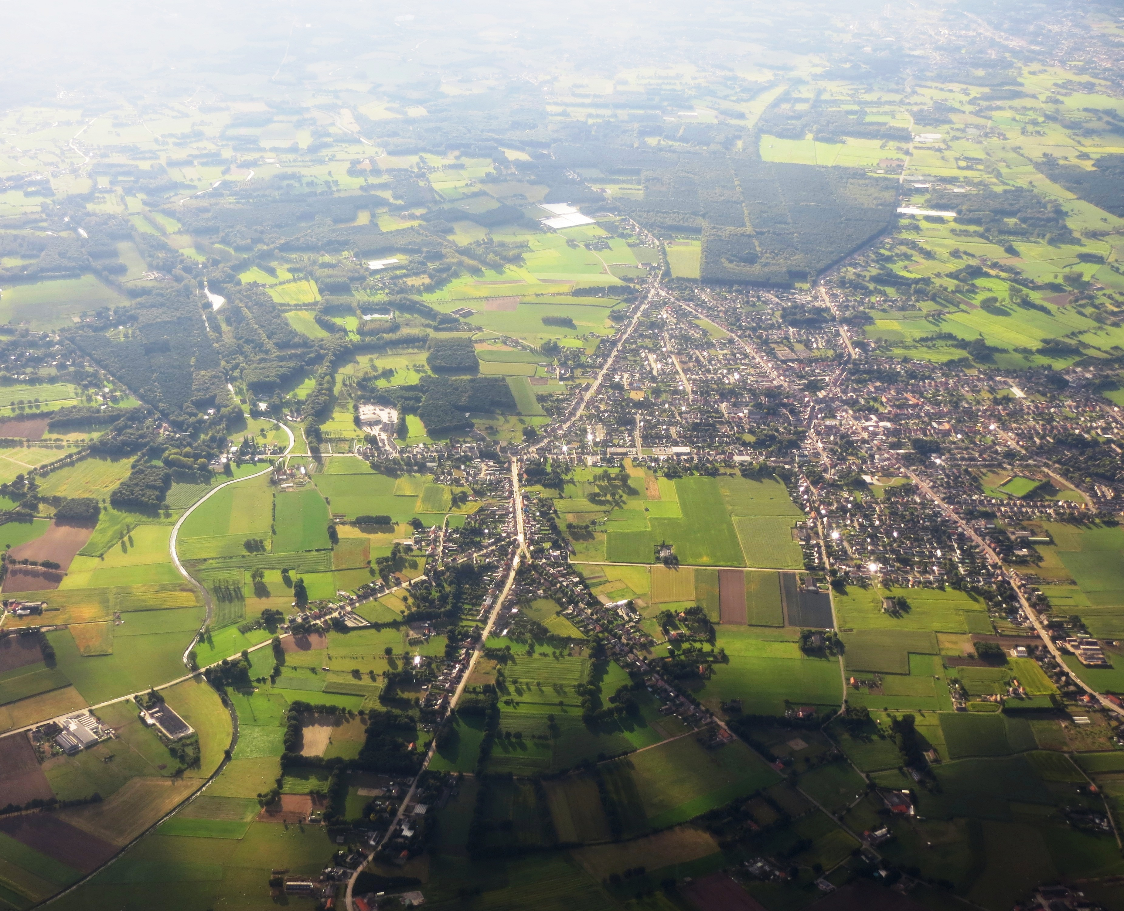 Aerial view from the (south)east towards (north)west, over the Hageland-Leuven region of northern Belgium. This municipality lies north of Brussels and west of Leuwen.